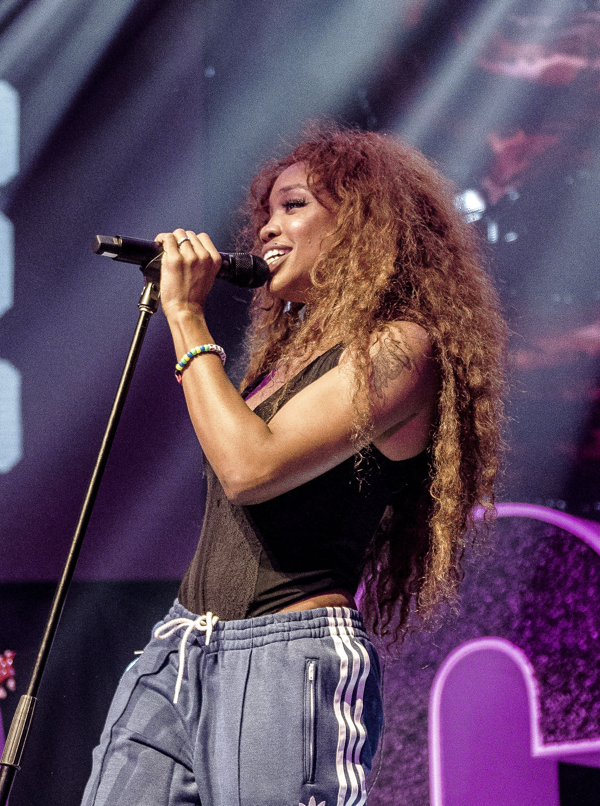 American R&B singer SZA performing at REBEL on August 23, 2017 in Toronto, Canada on Ctrl the Tour.